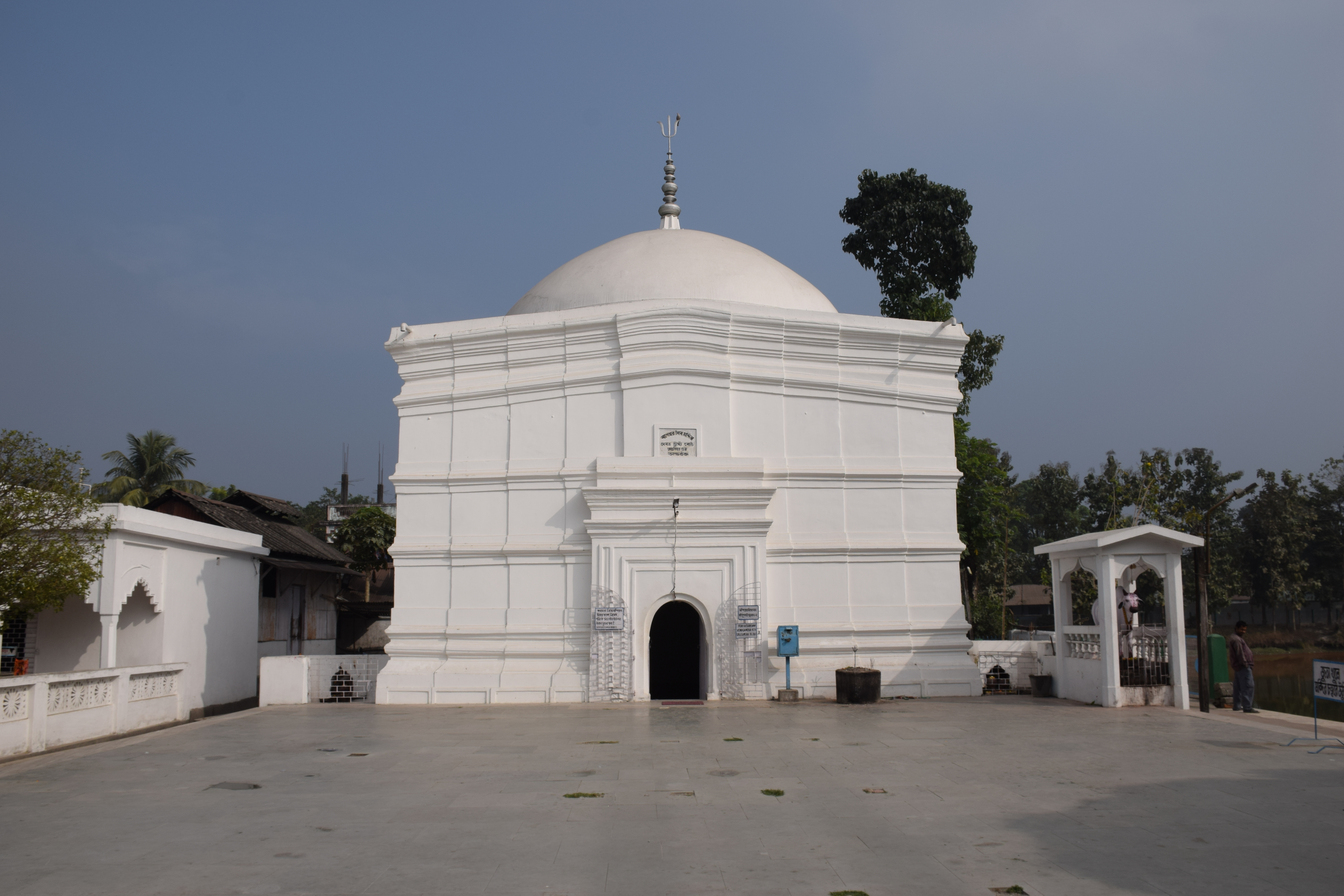 Baneshwar Shiva Temple at Cooch Behar District in West Bengal.